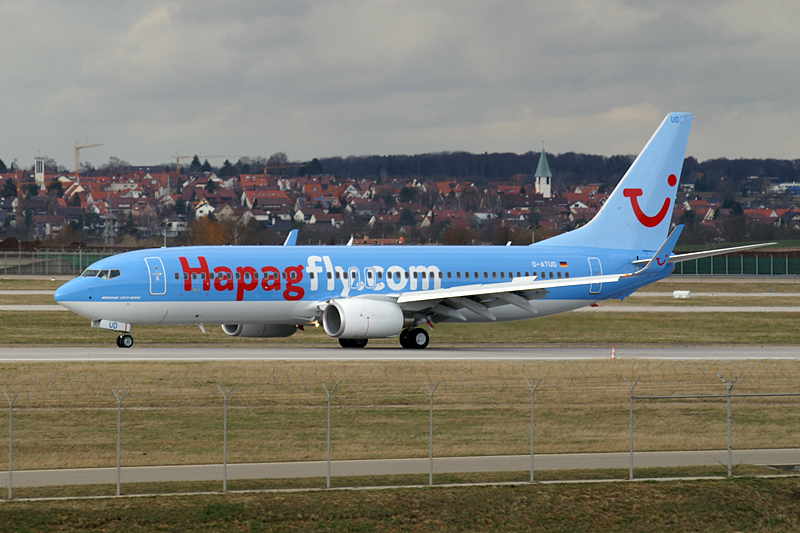 Hapagfly Boeing 737-800 D-ATUD at Stuttgart Airport